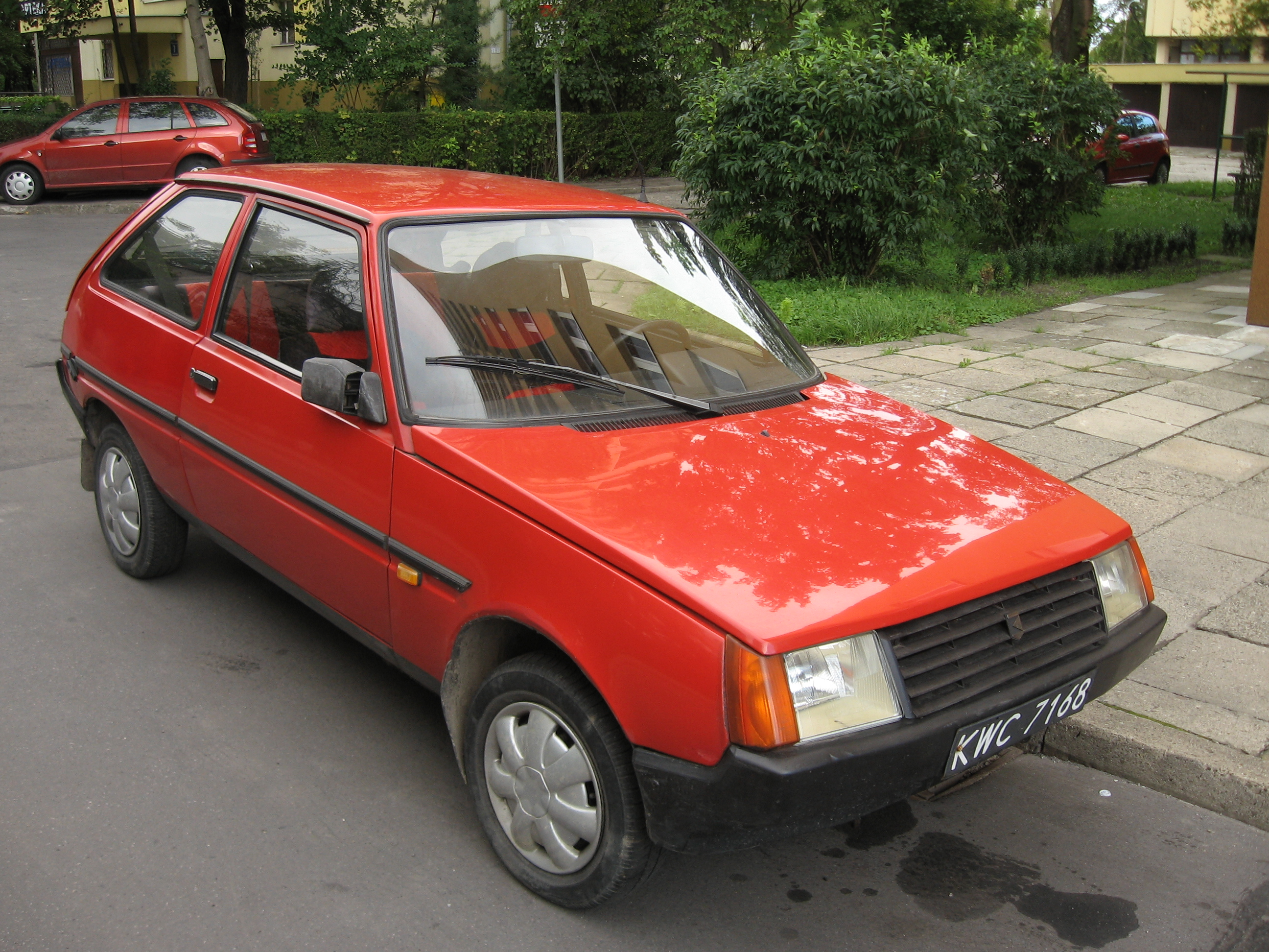 ZAZ 1102 Tavria car in Kraków, Poland.